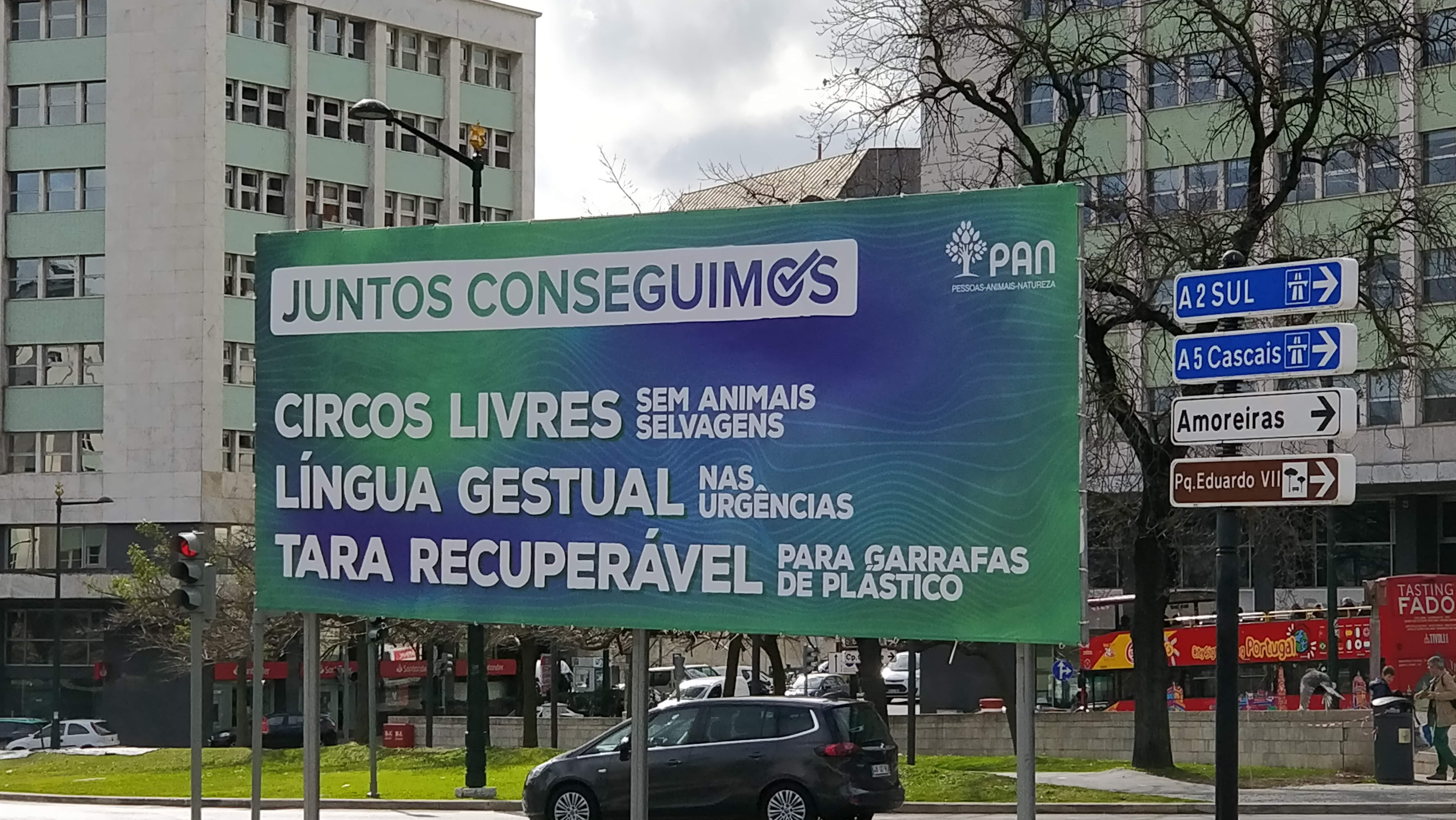 PAN election poster at Marquês de Pombal, Lisbon